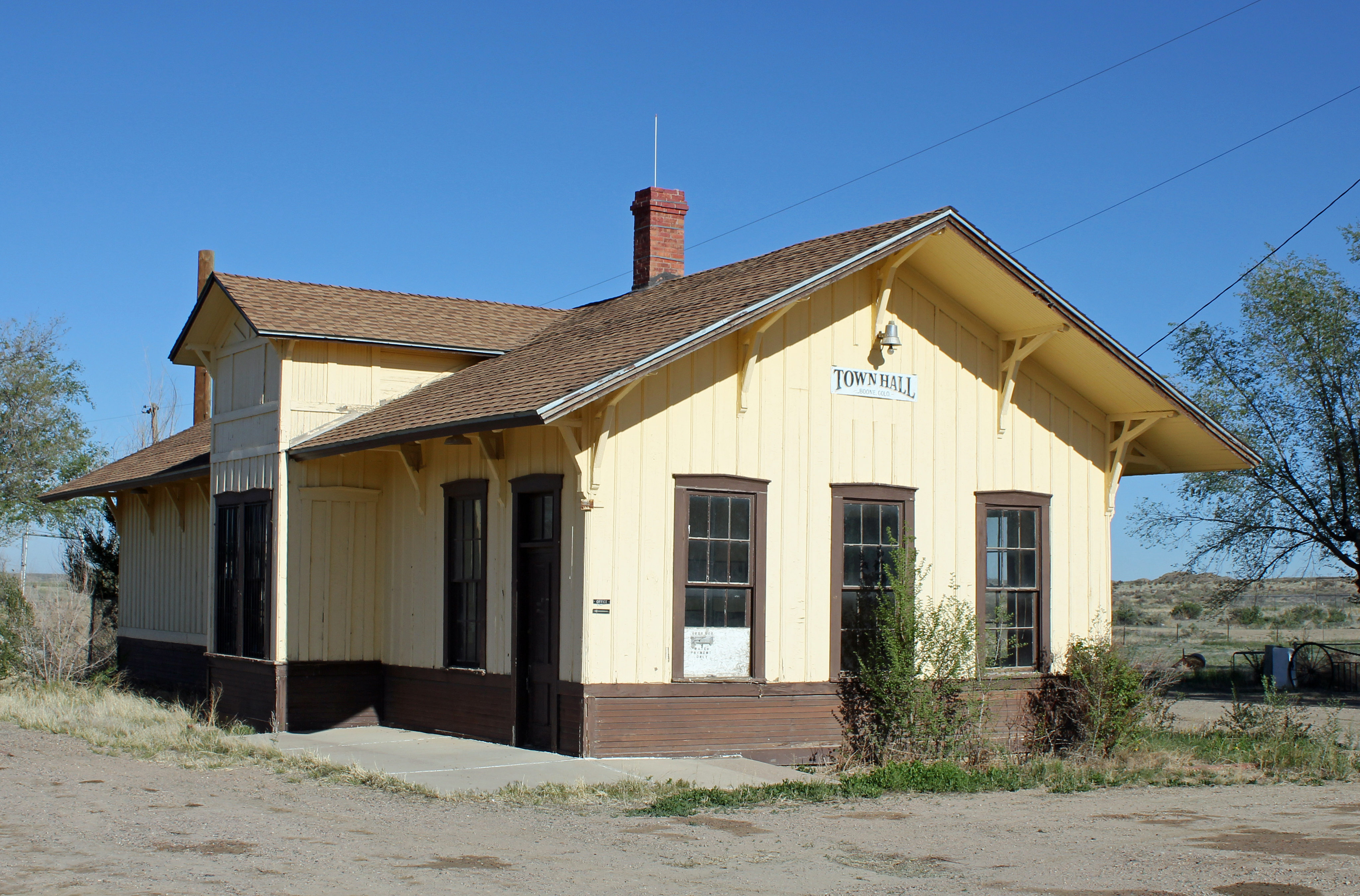 The Boone Santa Fe Railroad Depot in Boone, Pueblo County, Colorado. The property, listed on the National Register of Historic Places, now serves as the Boone Town Hall.